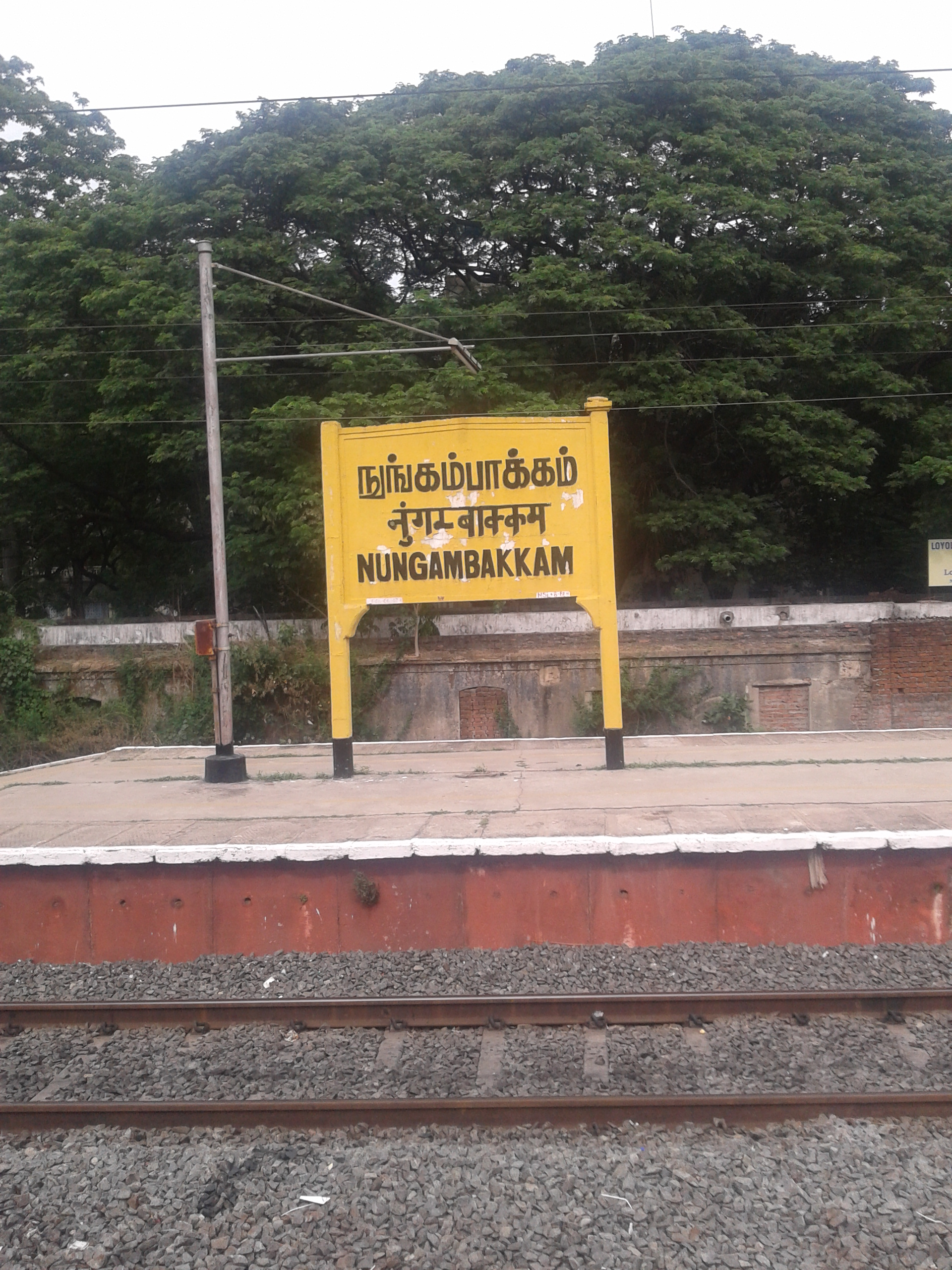 nameboard